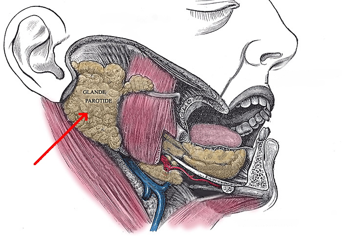 Position of the parotid gland.